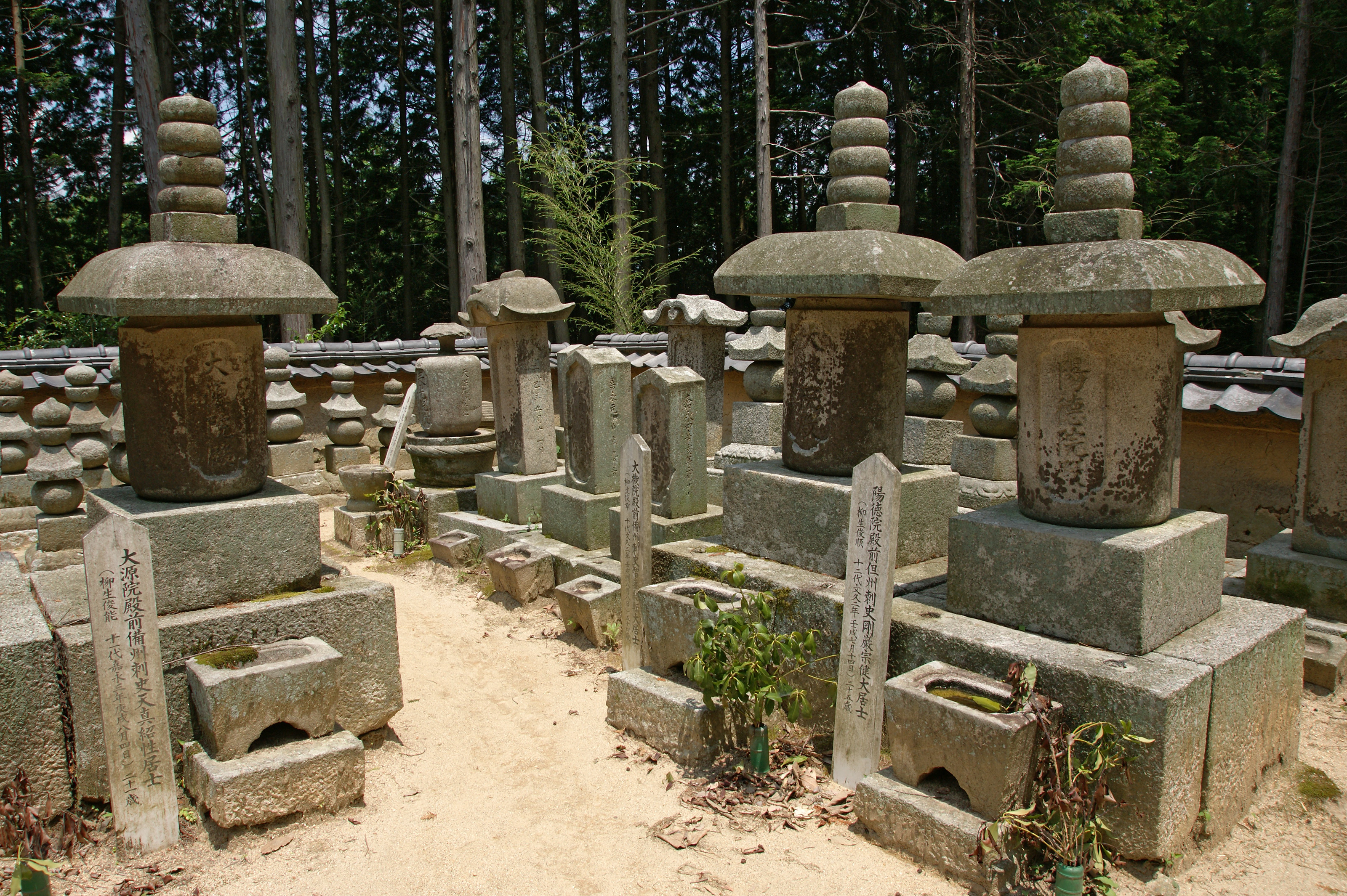 Hotokuji in Nara, Nara prefecture, Japan